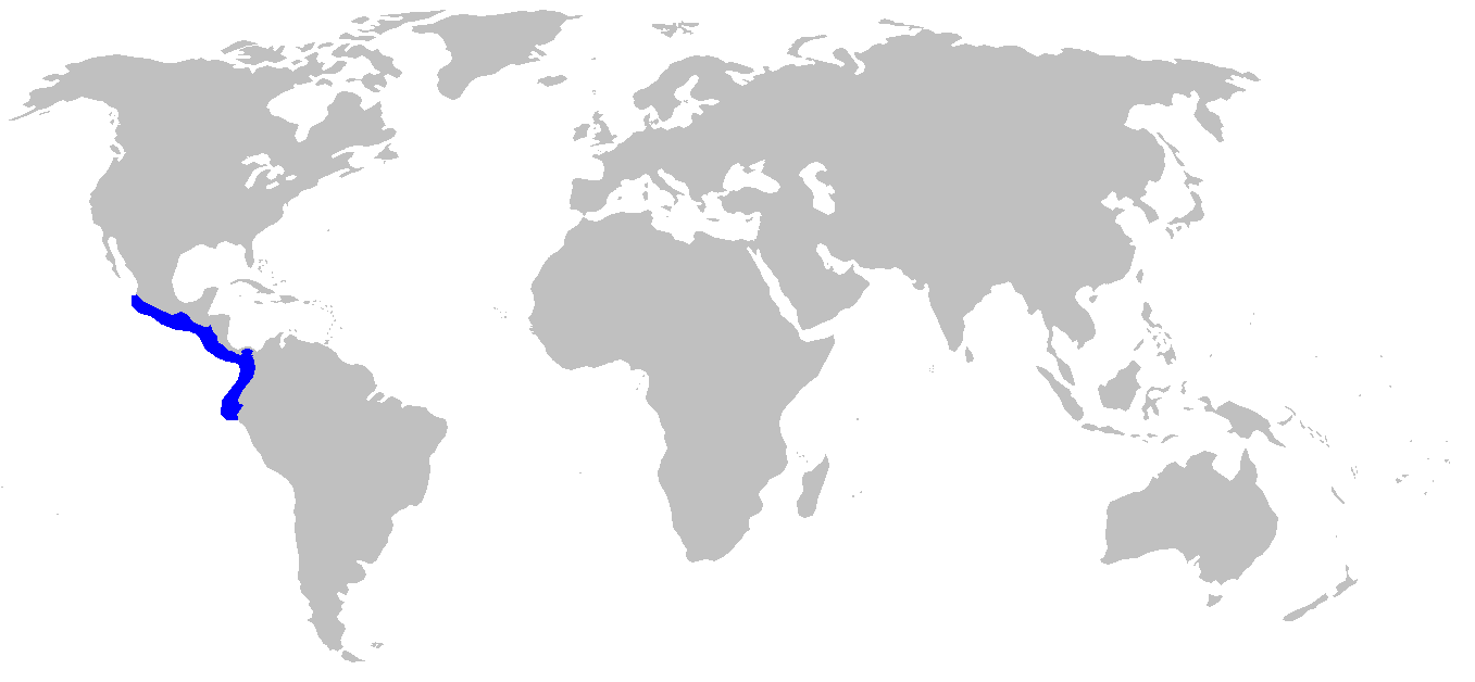 Distribution map for Mustelus dorsalis